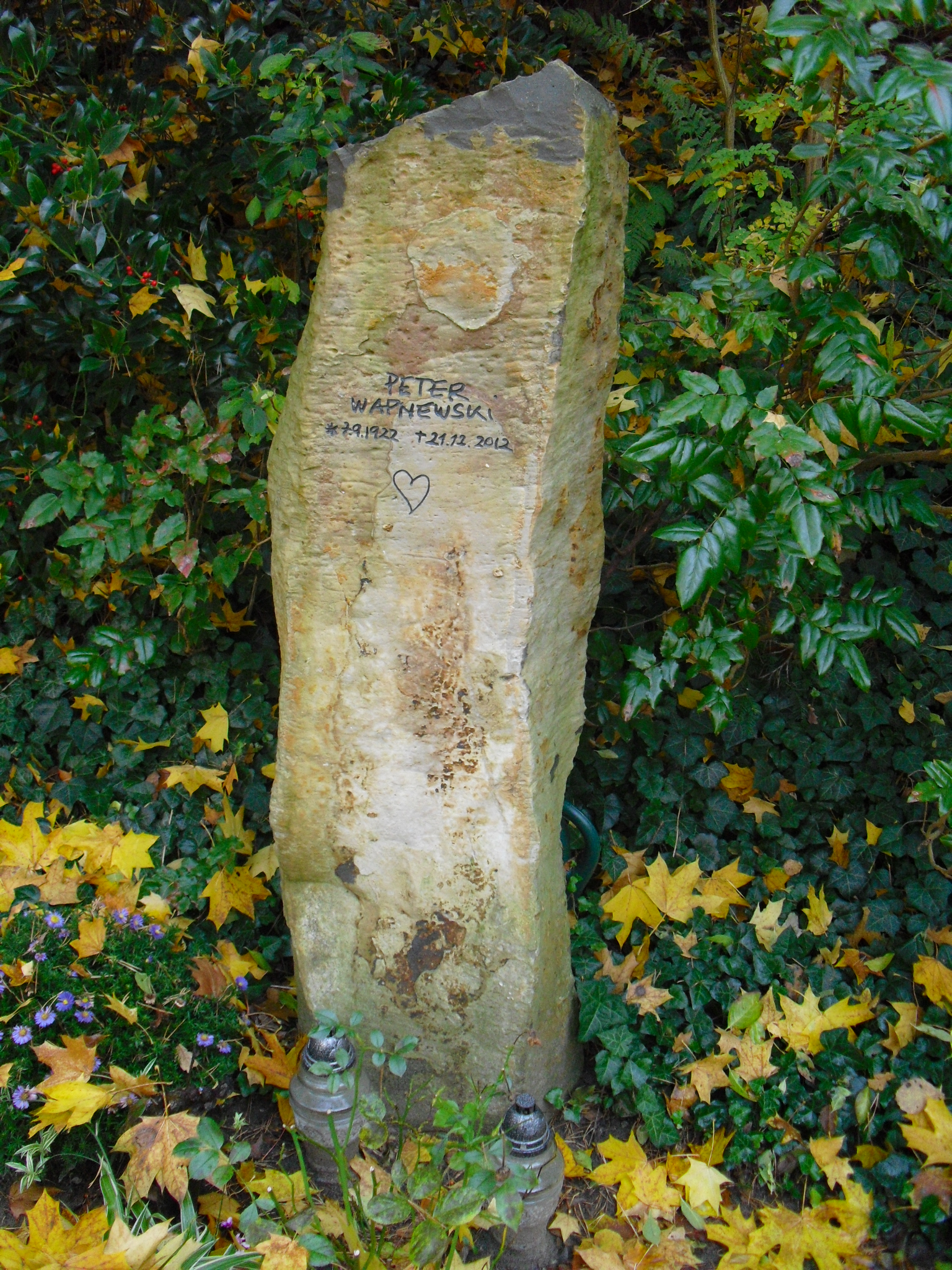 Grave of Peter Wapnewski in Friedhof Heerstraße in Berlin-Westend